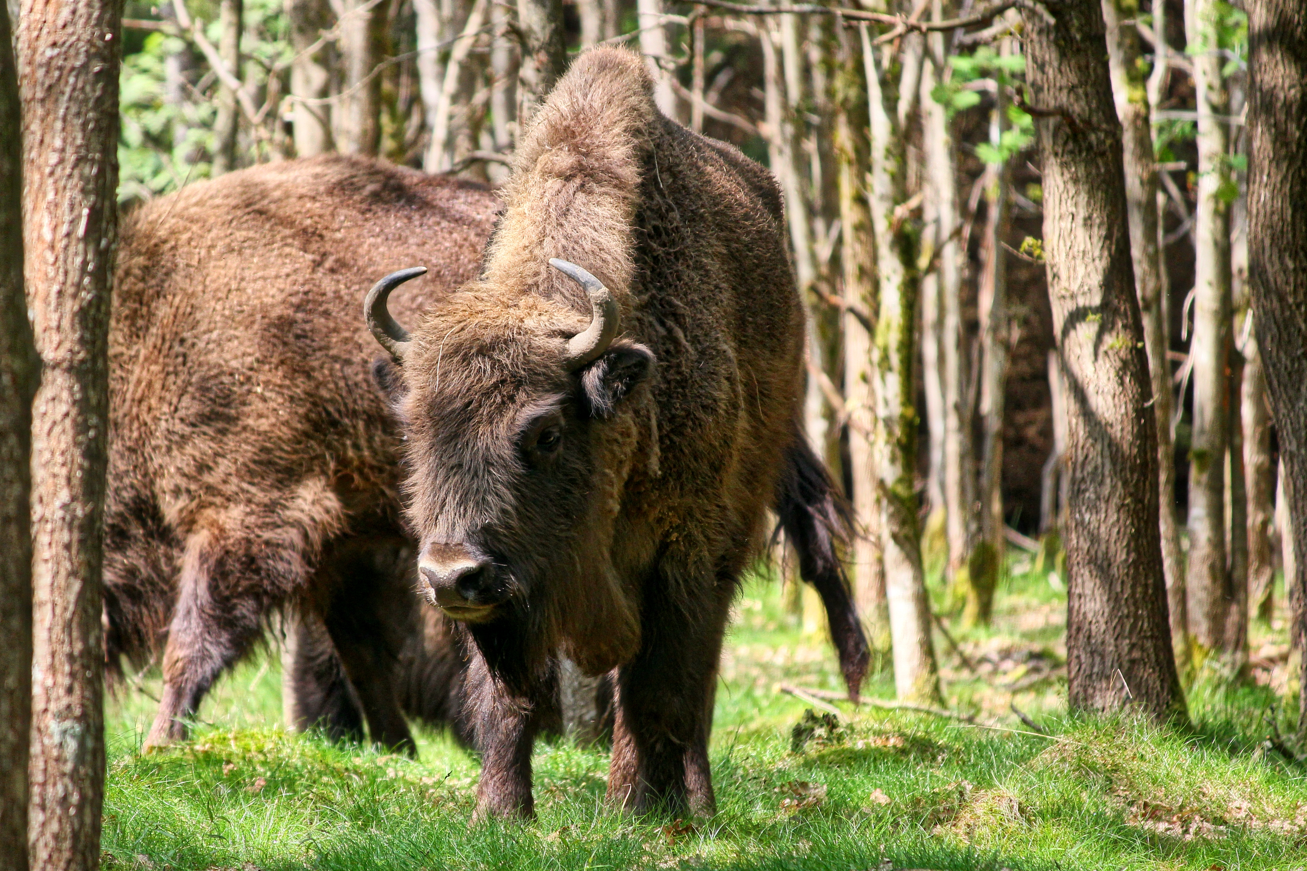 Wisents (Bison bonasus) in wood Almindingen on island Bornholm, Danmark